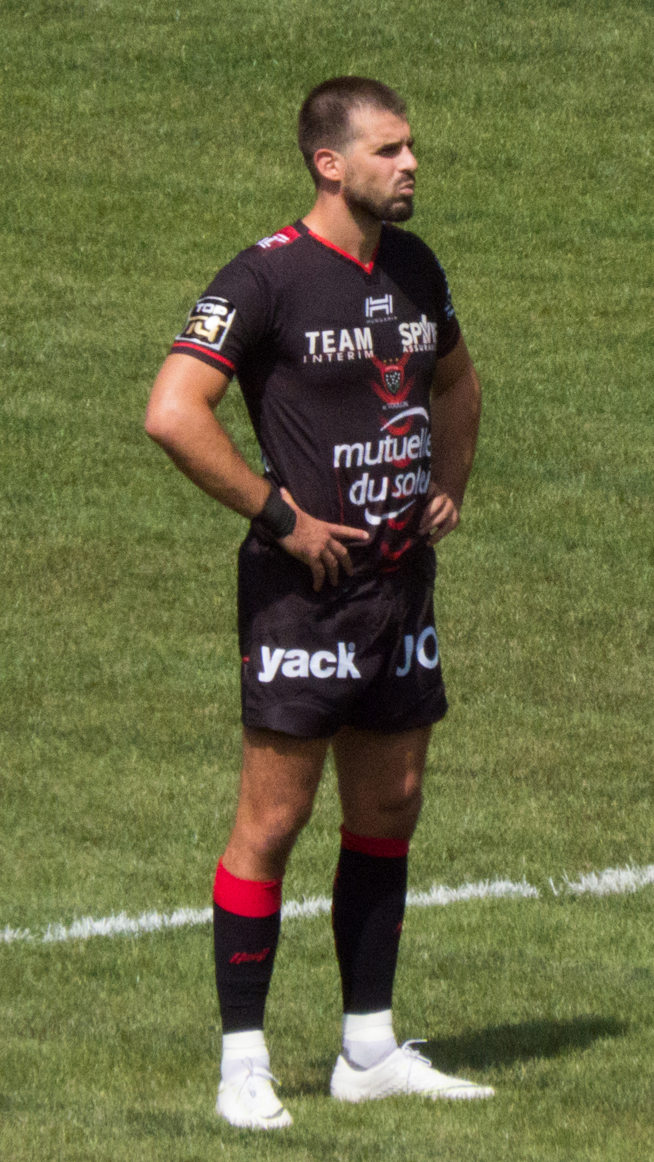 2018–19 Top 14 season — 1 September 2018, Stade du Hameau. Match between: Section Paloise — RC Toulonnais